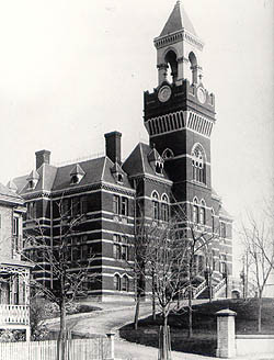 Kingston, NY, USA, city hall with original bell tower and roof, before modification after repairs of 1927 fire.